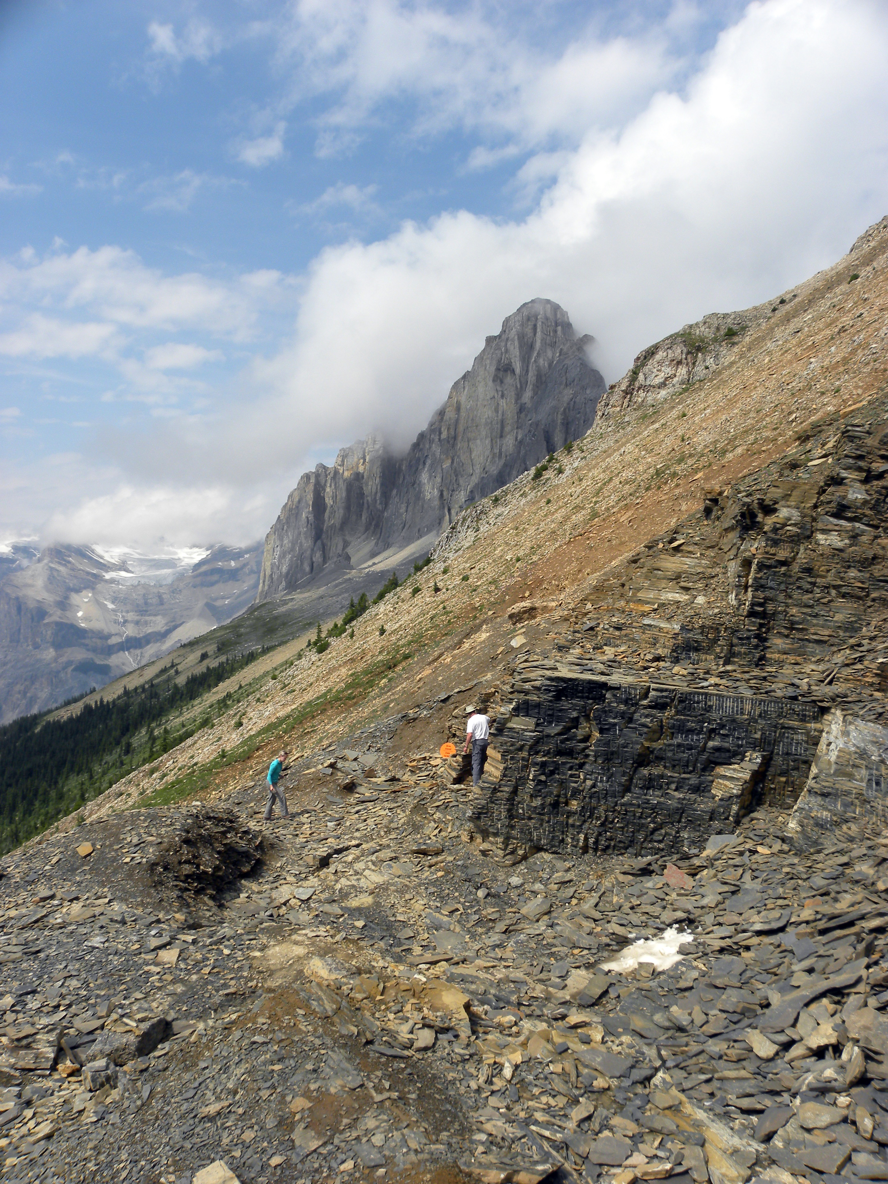 Walcott Quarry of the Burgess Shale (Middle Cambrian), British Columbia. The photo shows the Walcott Quarry Shale Member. The white parallel vertical streaks are remnants of drill holes made during excavations in mid-1990s.